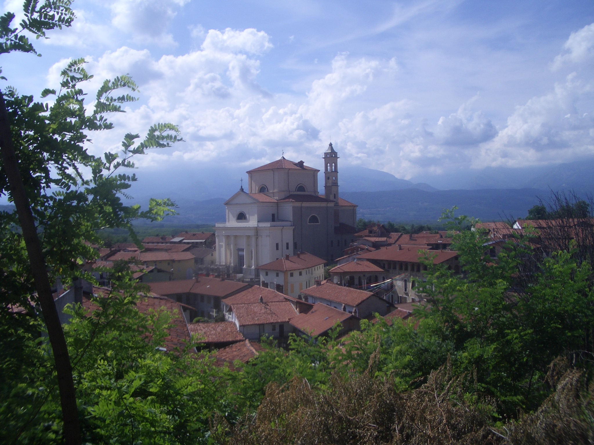 Romano Canavese, landscape with the parish church